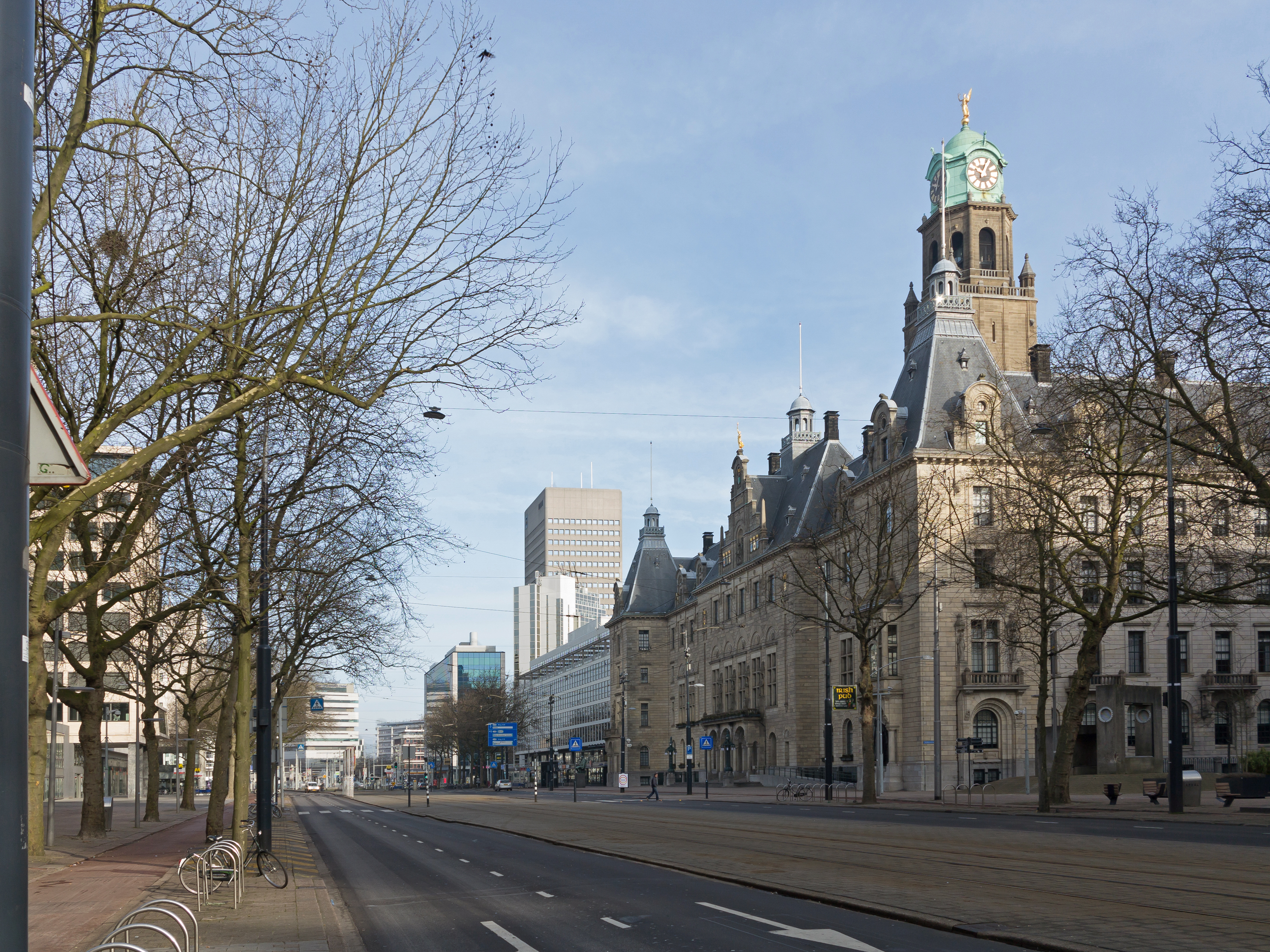 Rotterdam, view to the townhall at the Coolsingel